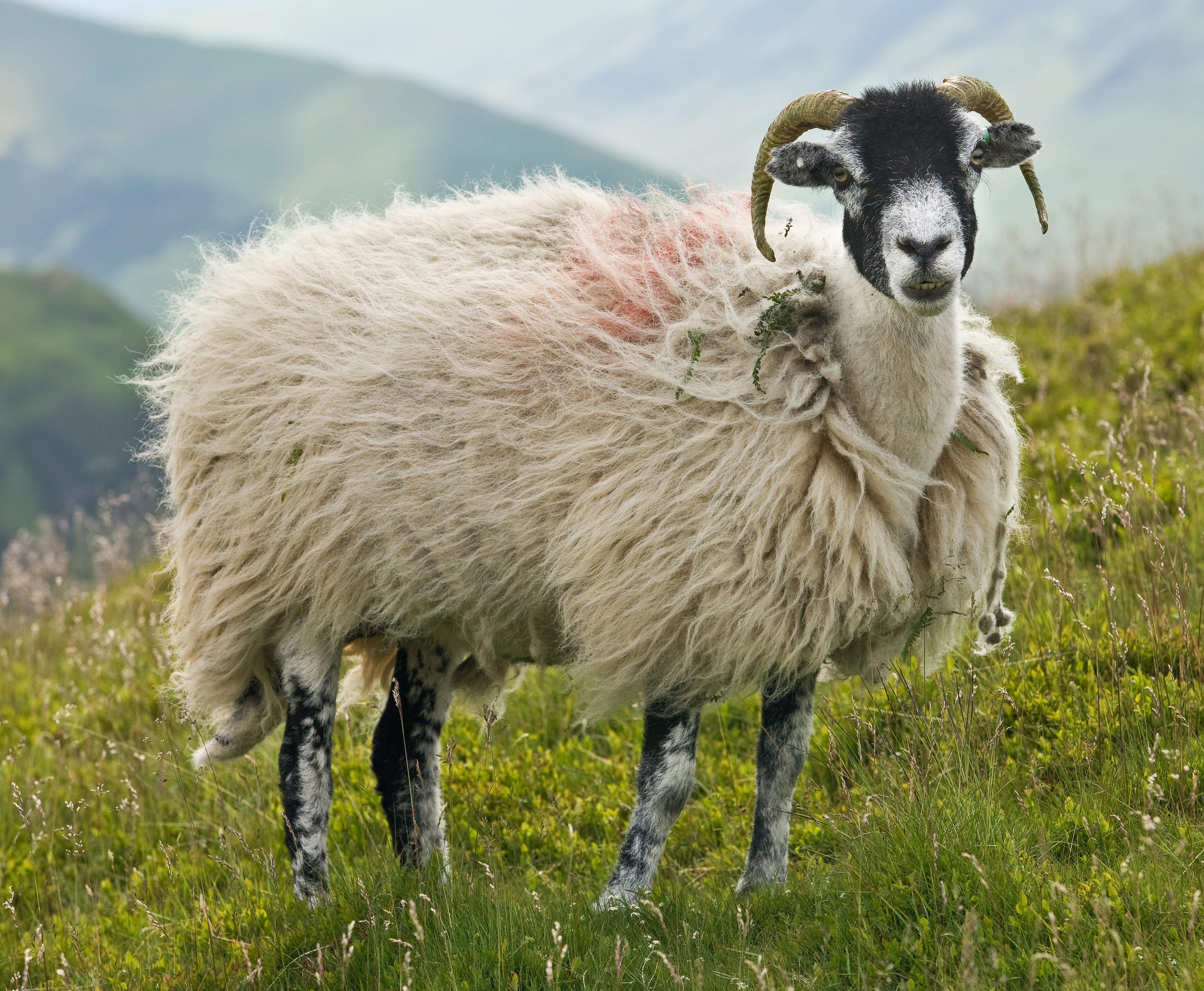 A swaledale ewe (Ovis aries) on the rolling fells of the Lake District near Keswick, in Cumbria, England.